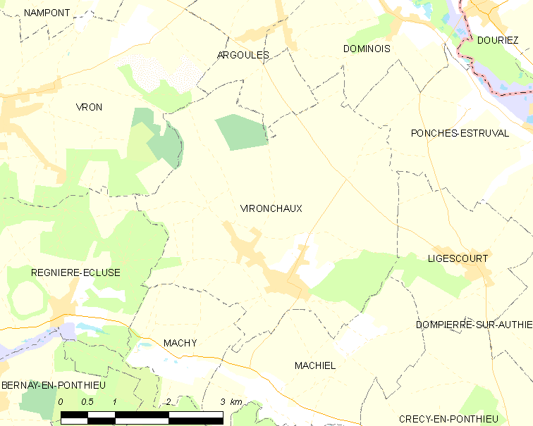 Map of French municipality Vironchaux